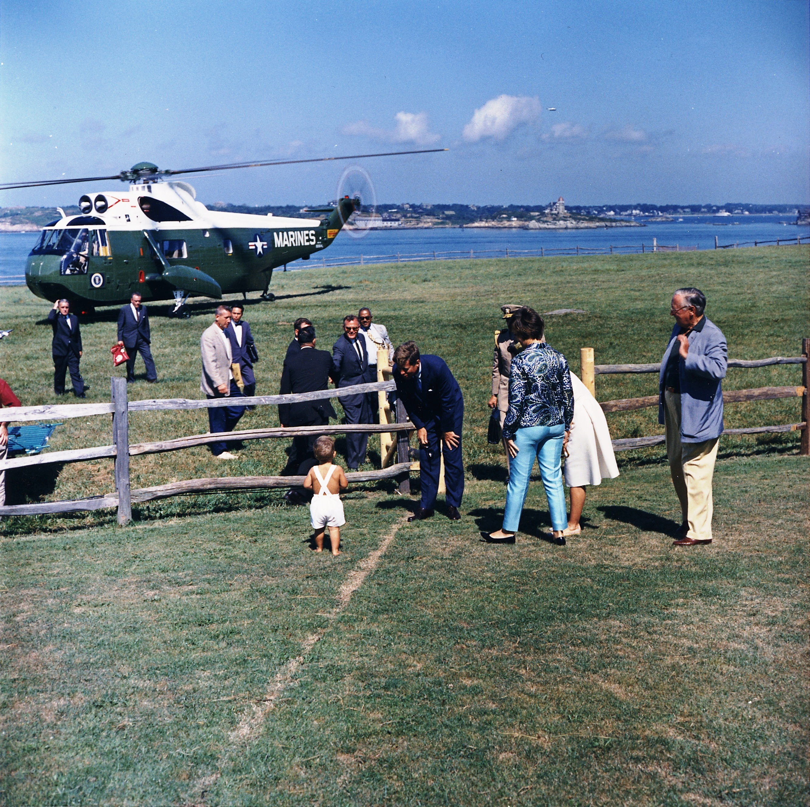 Arrival of President at Hammersmith Farm. President Kennedy, John F. Kennedy, Jr., Hugh D. Auchincloss, Assistant Press Secretary Andrew Hatcher, aides, others. Newport, RI, Hammersmith Farm.